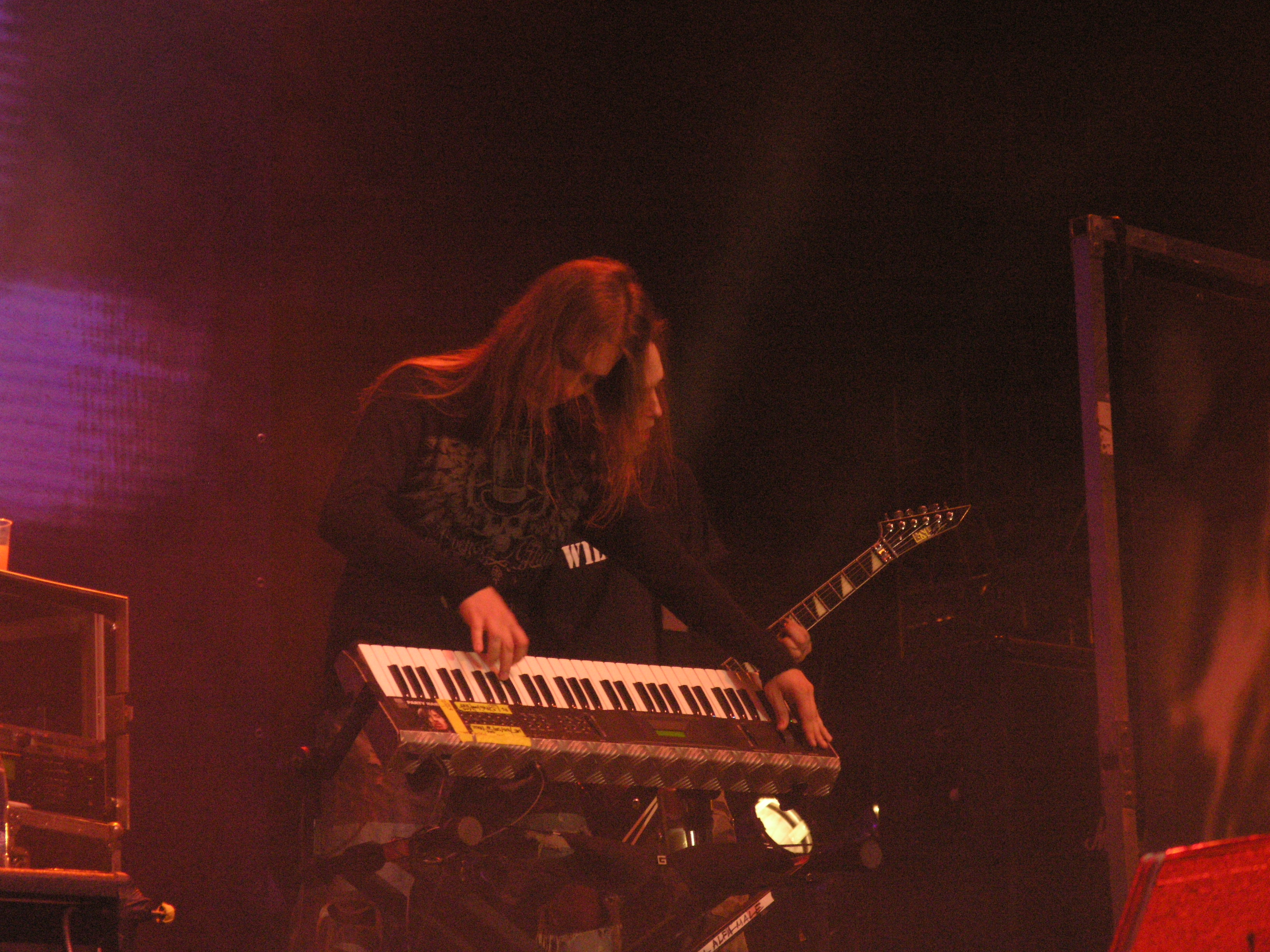 Janne Warman from Children of Bodom during Masters of Rock 2007 festival